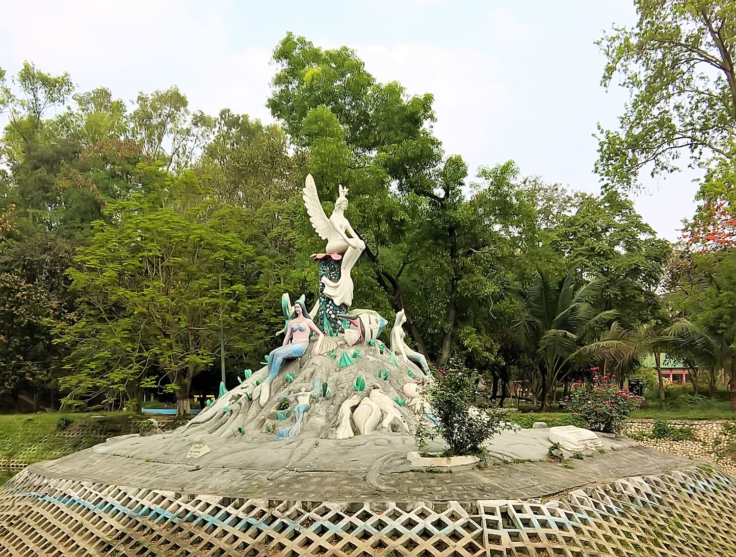 Shaheed AHM Kamaruzzaman Botanical Garden and Zoo is one of the central cultural park in Rajshahi.